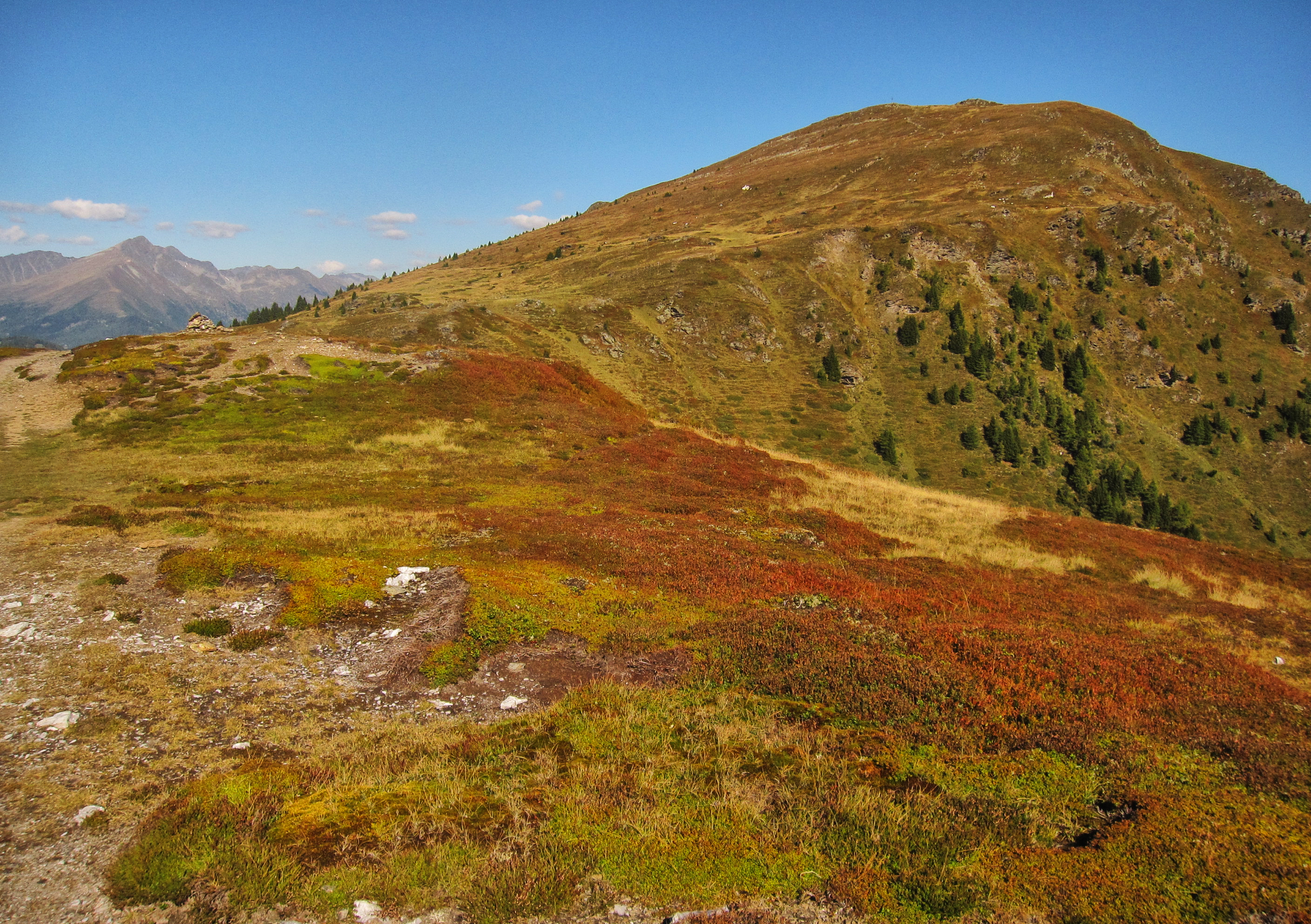 Gstoder in fall